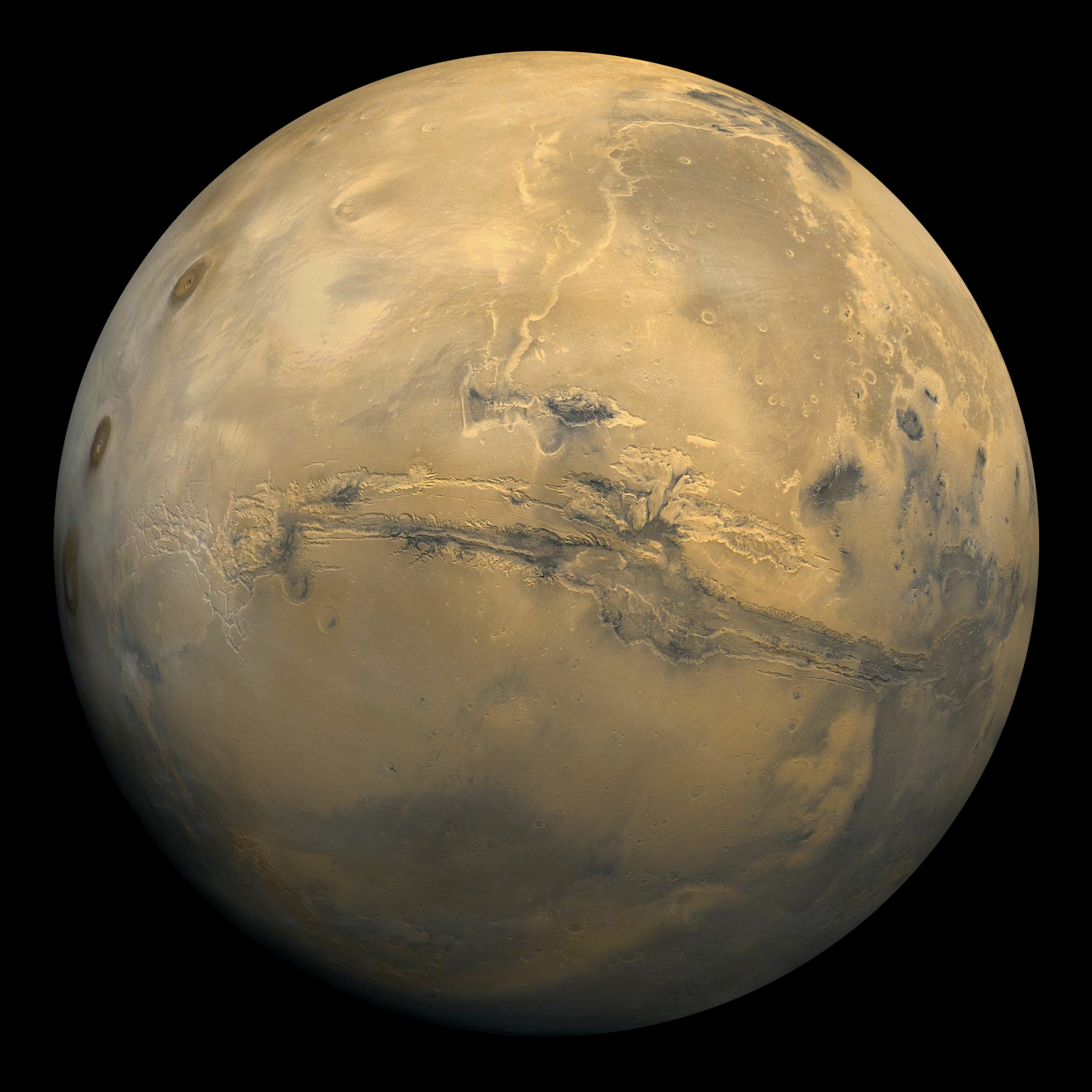 Global mosaic of 102 Viking 1 Orbiter images of Mars taken on orbit 1,334, 22 February 1980. The images are projected into point perspective, representing what a viewer would see from a spacecraft at an altitude of 2,500 km. At center is Valles Marineris, over 3000 km long and up to 8 km deep. Note the channels running up (north) from the central and eastern portions of Valles Marineris to the dark area, Acidalic Planitia, at upper right. At left are the three Tharsis volcanoes and to the south is ancient, heavily impacted terrain. (Viking 1 Orbiter, MG07S078-334SP)Some of the features in this image are annotated in Wikimedia Commons.